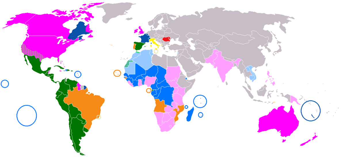 A combination of Image:Map-Romance Language World.png (Romance languages) and Image:Anglospeak.svg